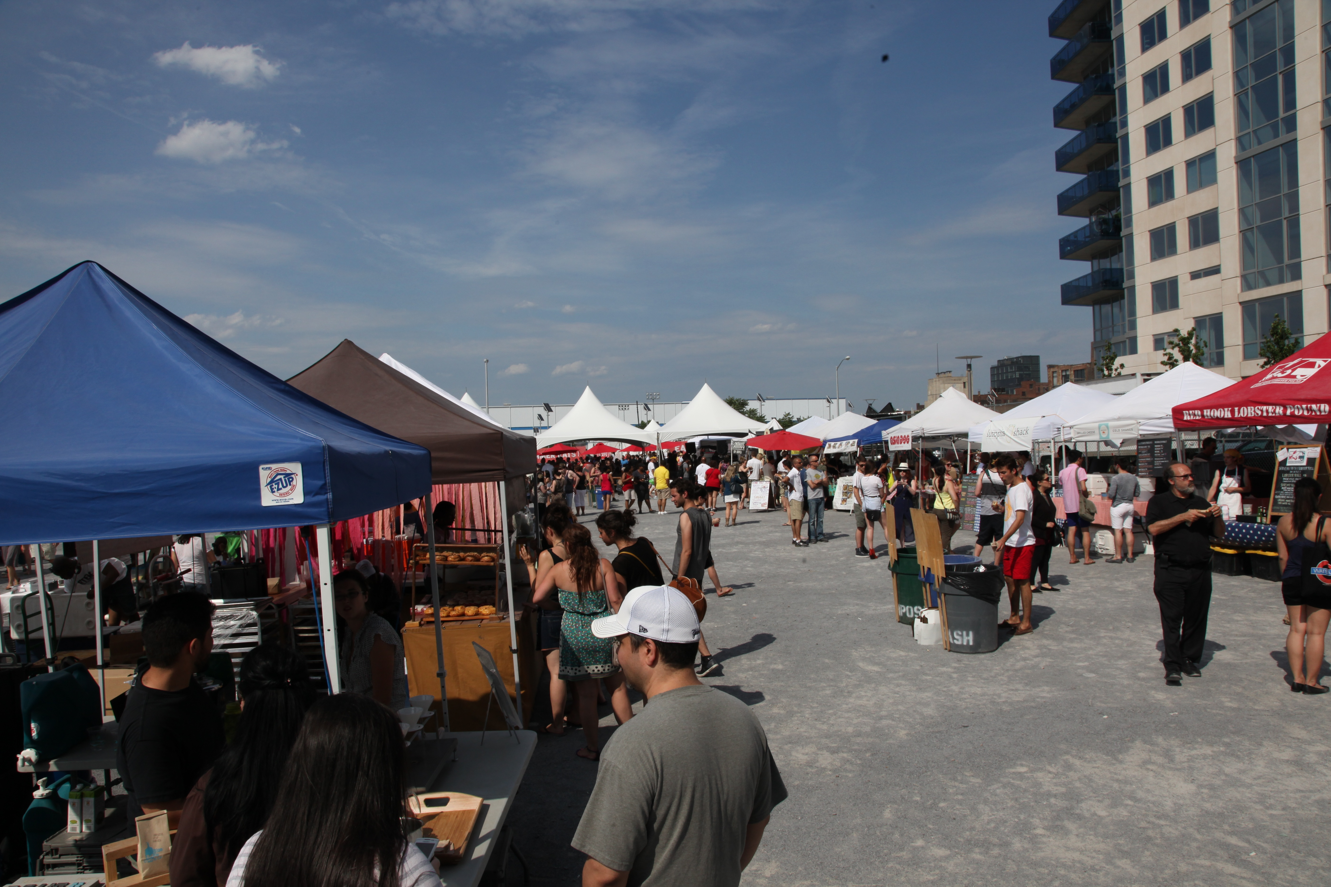 Cooking Channel event draws attention away from @Smorgasburg